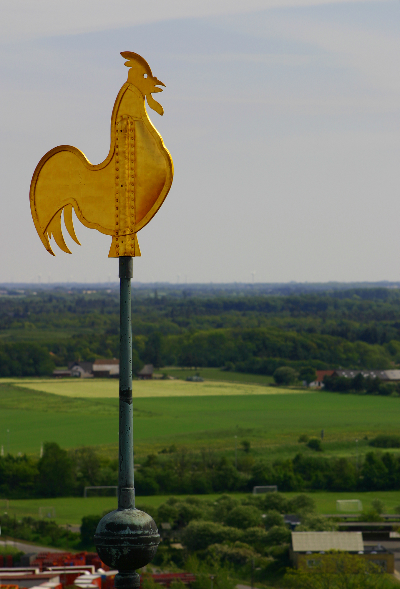 Weather vane seen from the tower of the Cathedral, Ribe, Denmark.